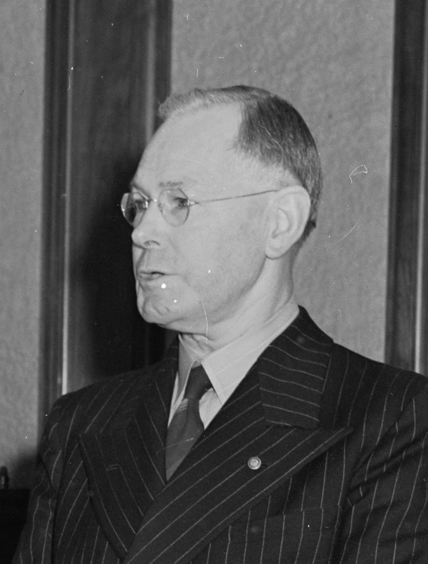 Edgar Neale. Photograph taken in 1950 by an Evening Post staff photographer.